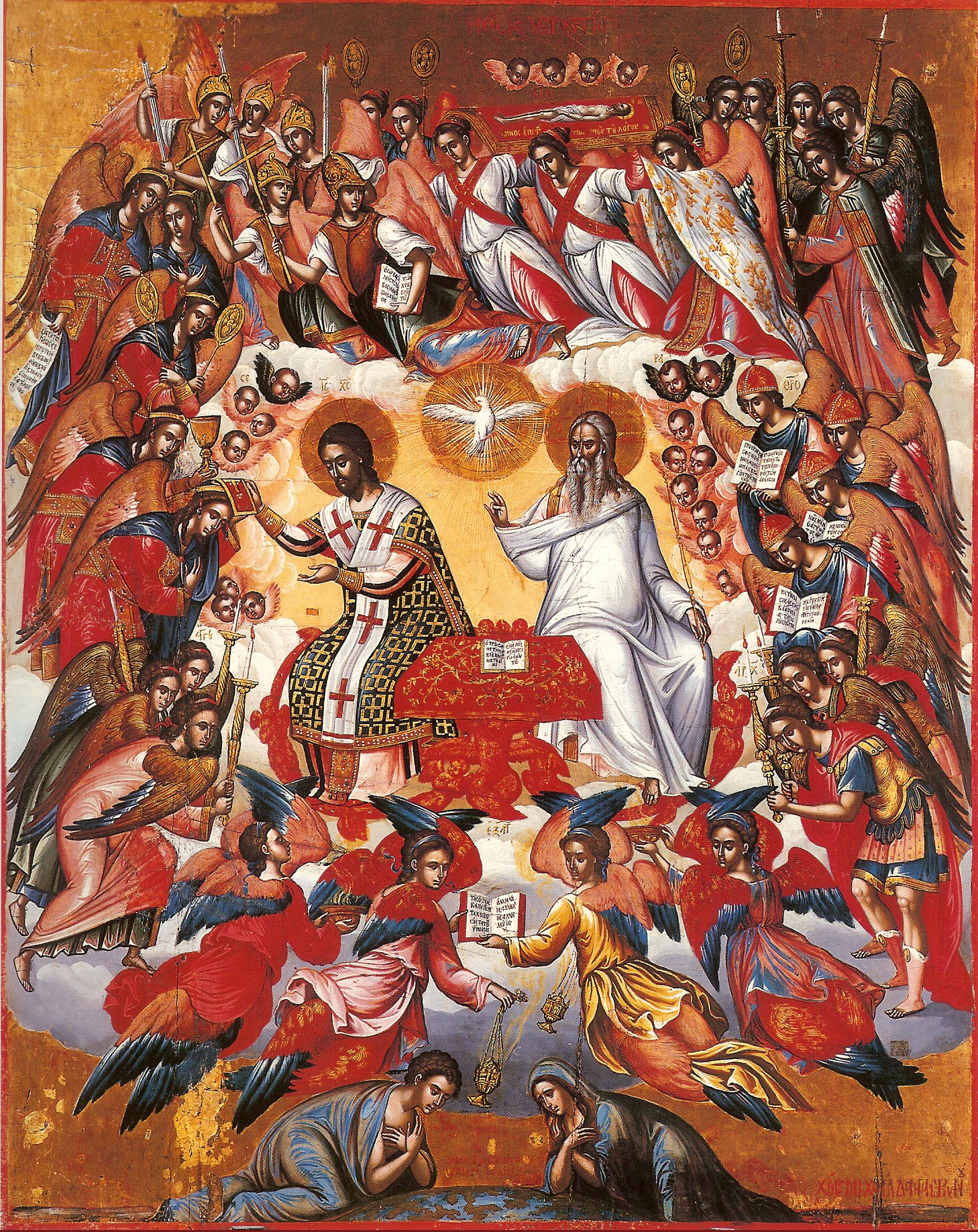 Divine Liturgy, work of Michael Damaskinos